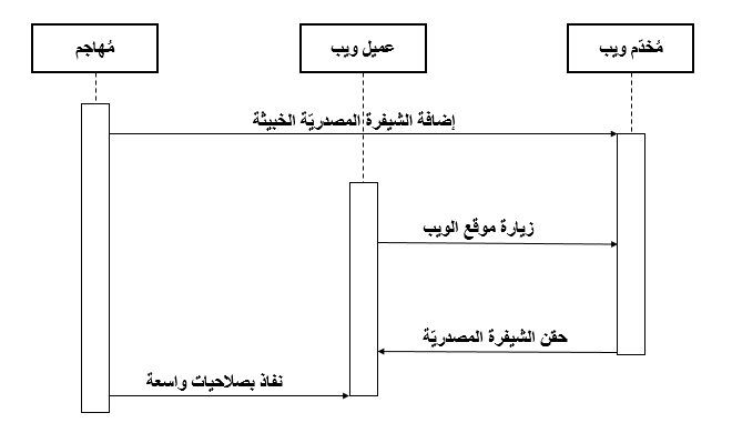 The sequence diagram of cross-site scripting attack.